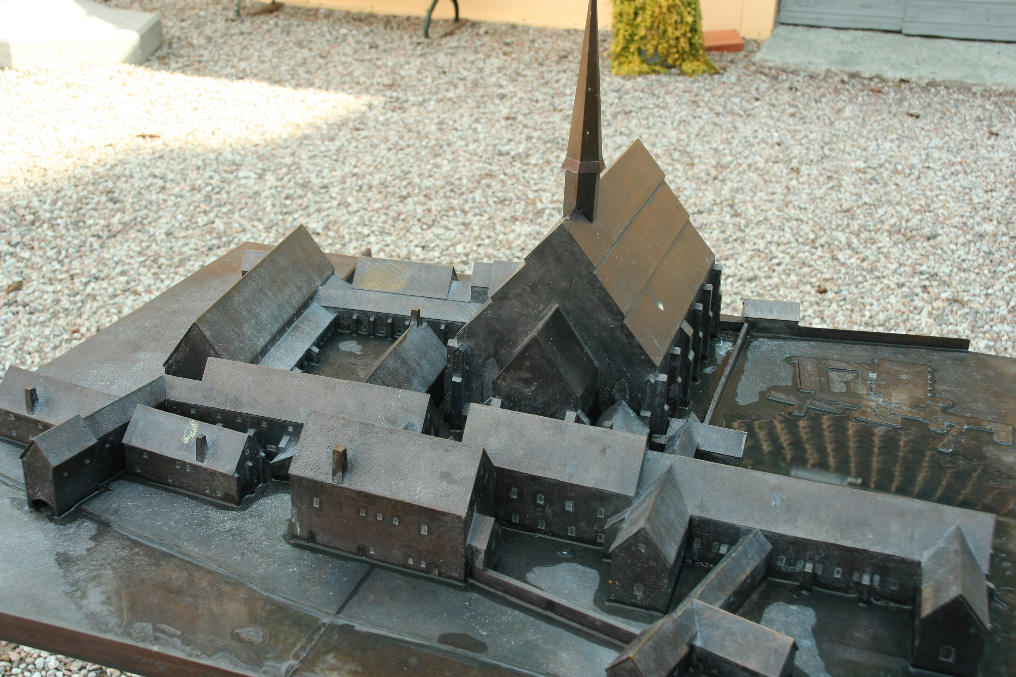 Maquette Brigitta Monestary in Vadstena, Sweden. Photographed by Niels Bosboom in August 2006.